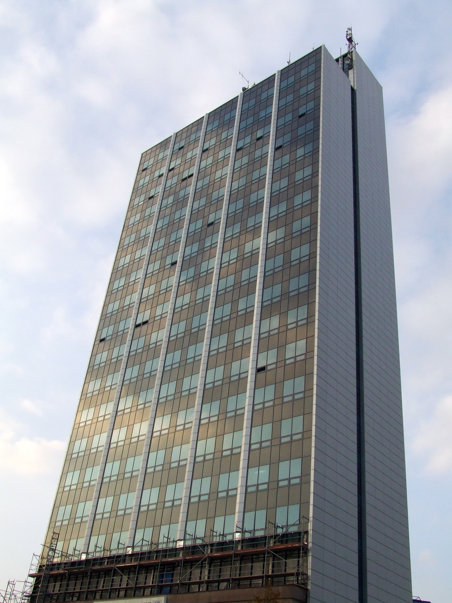 Building of Univesity of Silesia - Faculty of Earth Science (Sosnowiec) after modernisation summer 2007.